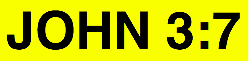 A png of the John 3:7 sign. Based on this image.